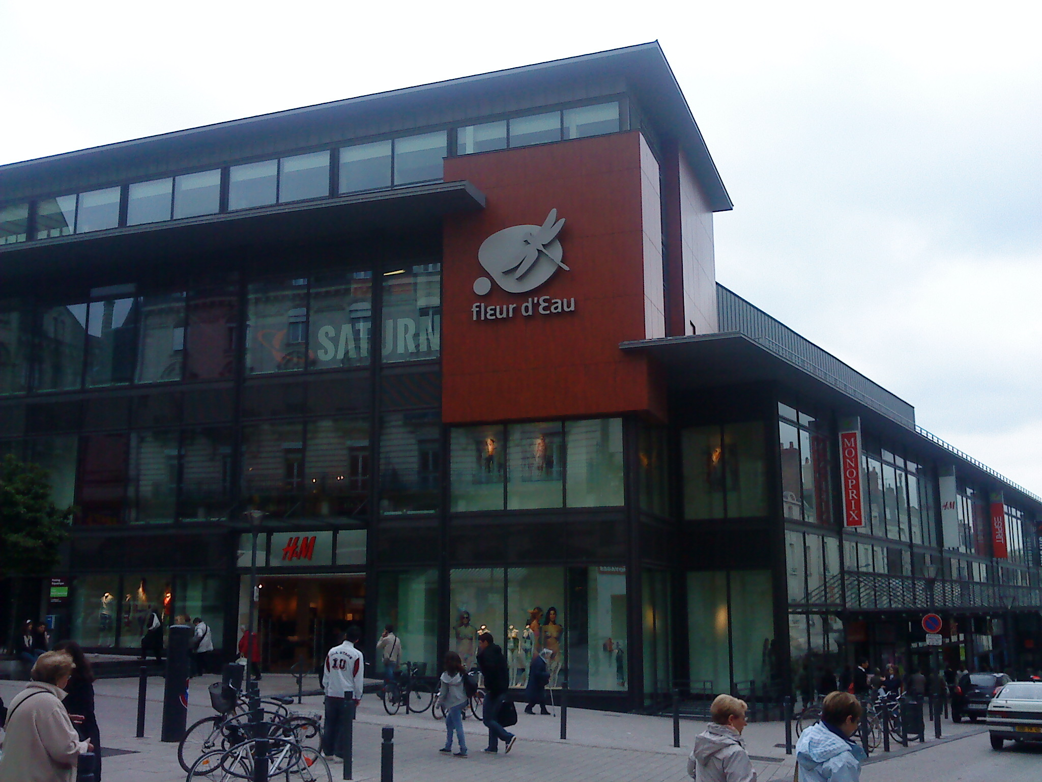 Fleur d'eau - les Halles (Angers)